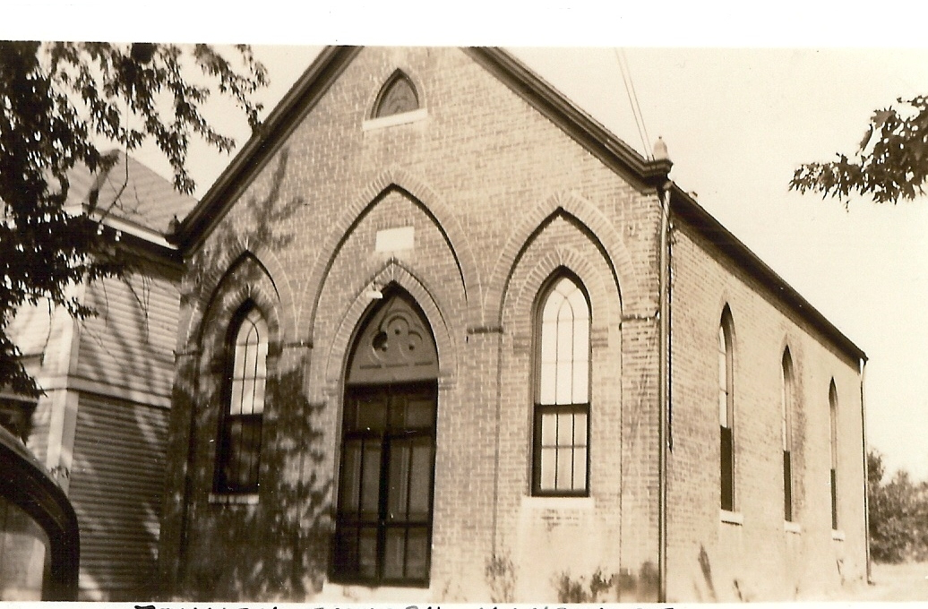 Temple Beth El - Jefferson City, MO - about 1920